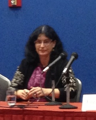 crop of Martha Wells from a group photo at worldcon in 2013